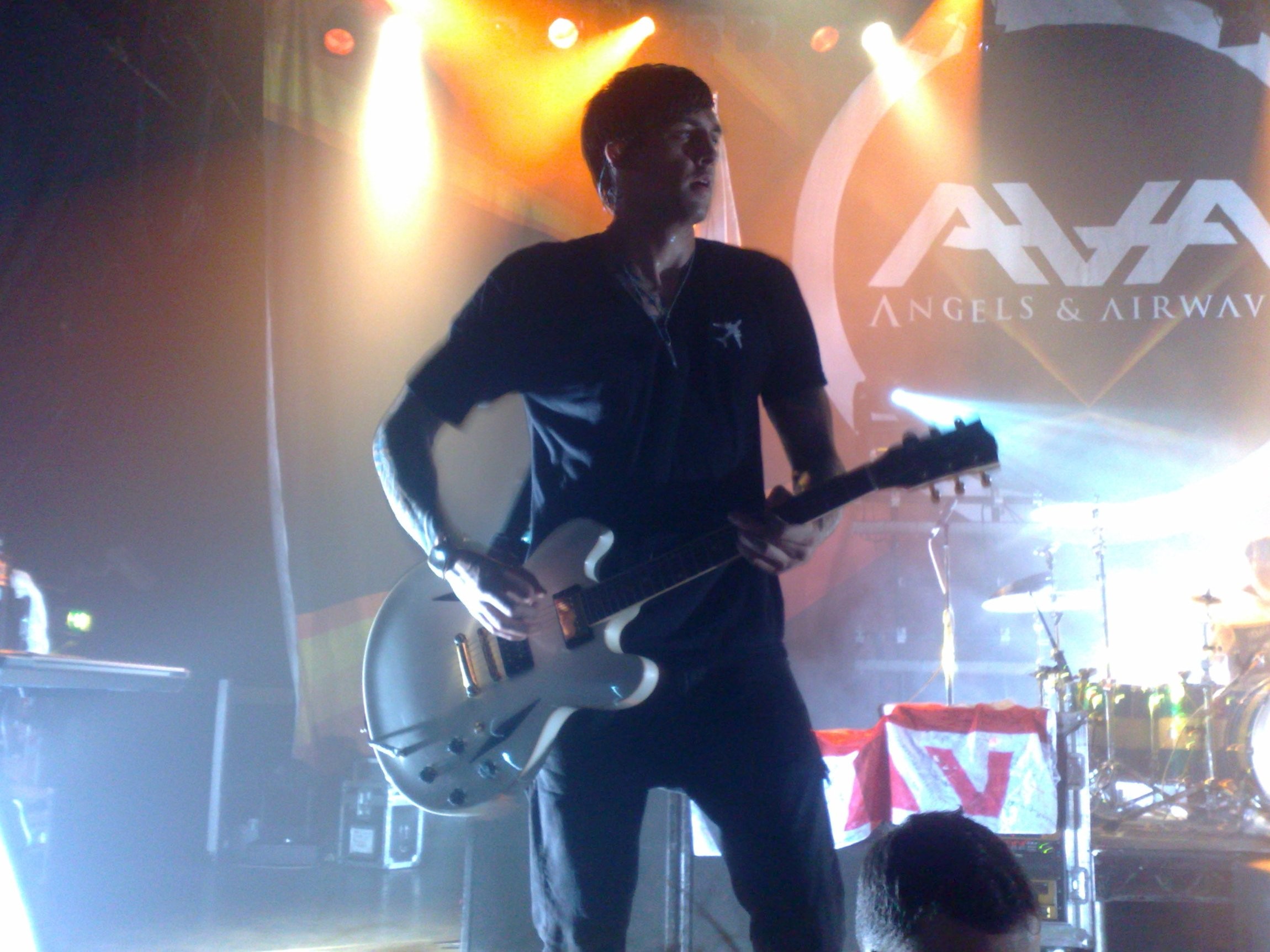 16th April 2008 @ Astoria, London